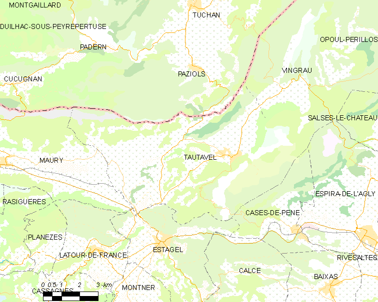 Map of French municipality